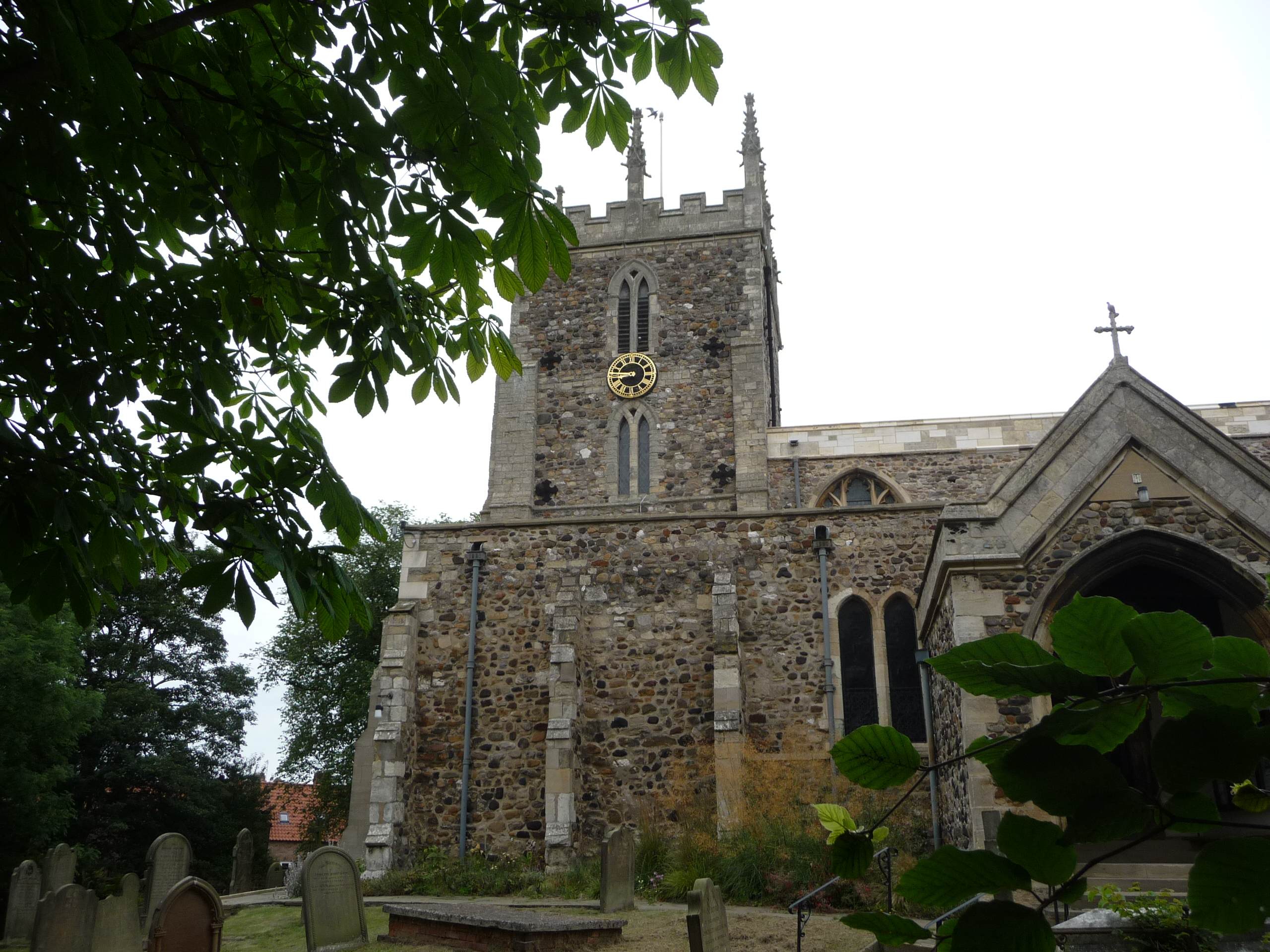 St Nicholas Church, Hornsea in the East Riding of Yorkshire, England.